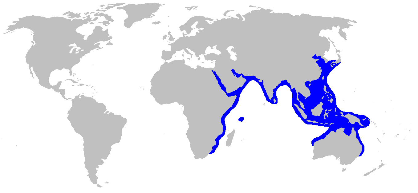 Range of the bowmouth guitarfish (Rhina ancylostoma), based on Last, P.R.; Stevens, J.D. (2009). Sharks and Rays of Australia (second ed.). Harvard University Press. pp. 299–300.